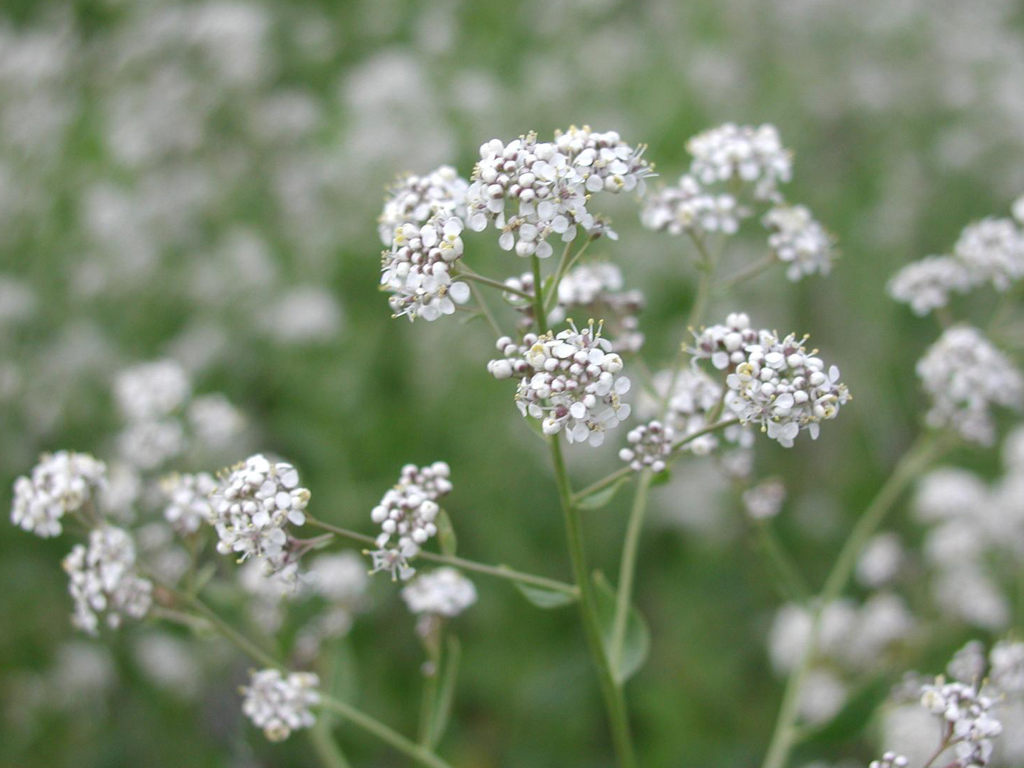 Lepidium latifolium L.- perennial pepperweed